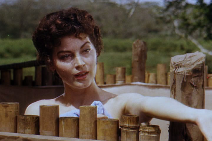 Screenshot of Ava Gardner from the trailer for the film Mogambo.